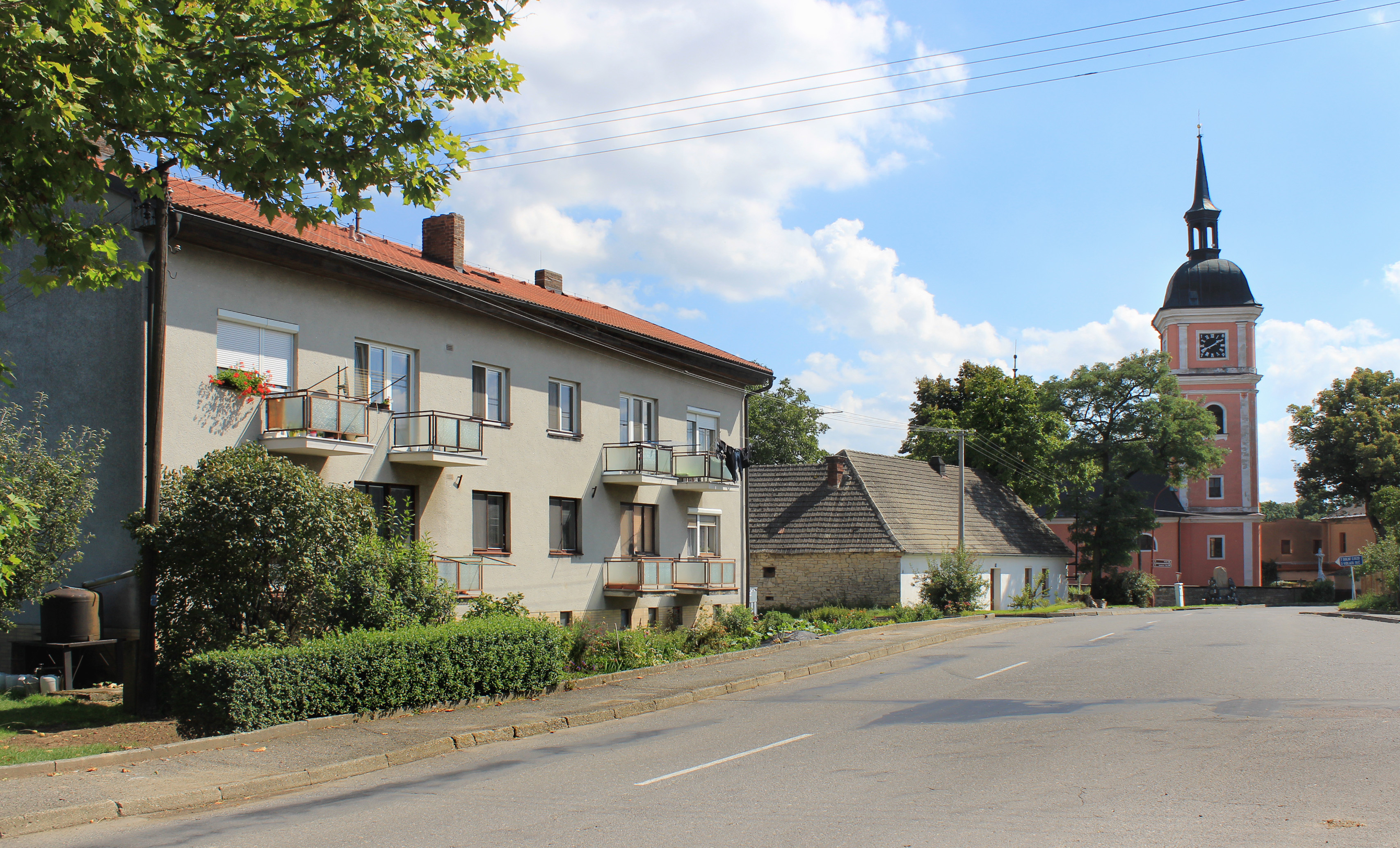 Road No. 358 in Makov, Czech Republic.